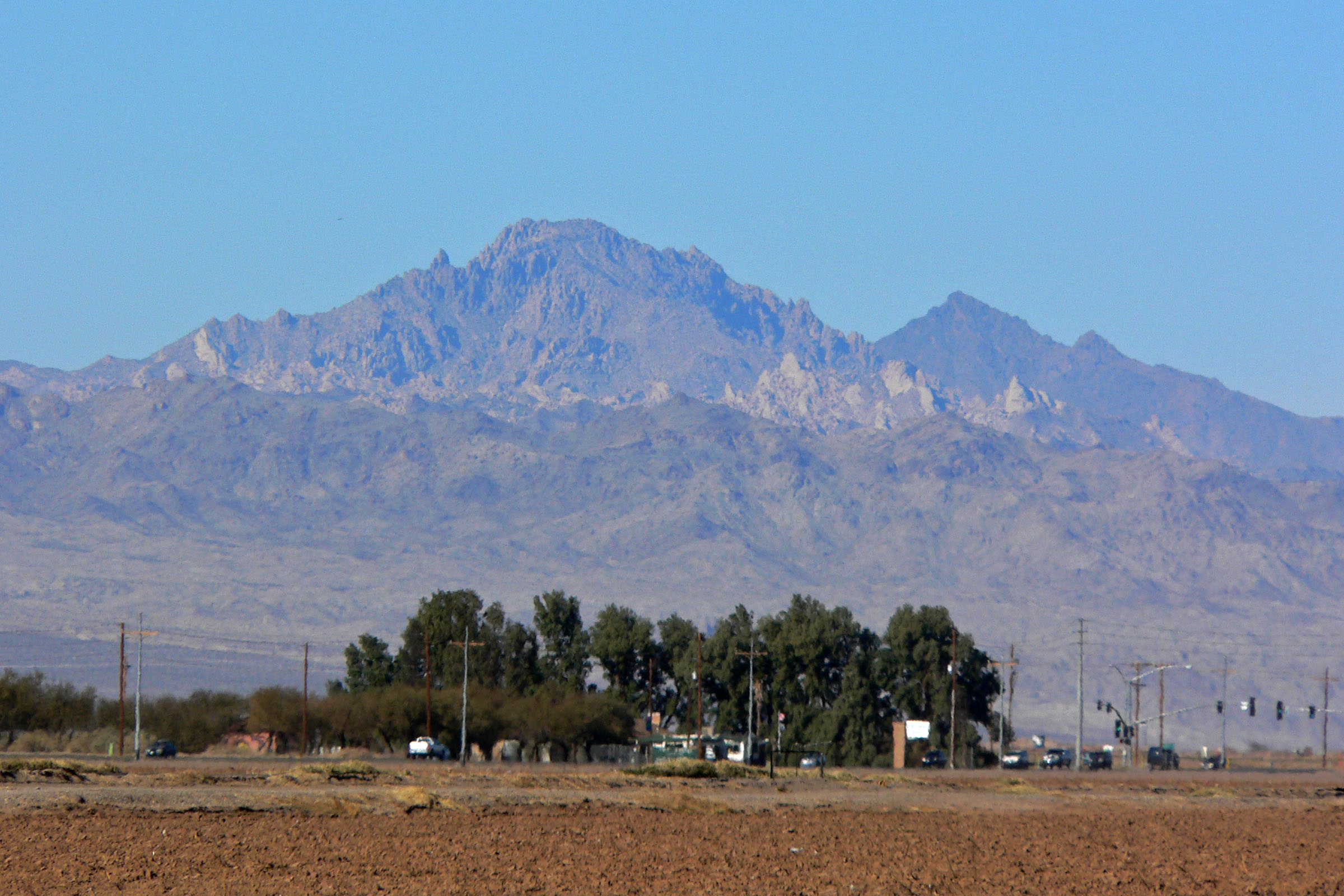 Spirit Mountain seen from route 95 in Mohave Valley